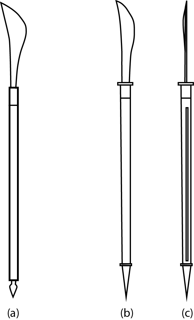 Arbirs of Indonesian Pencak Silat martial arts. (a) Spear-butted type (b) Spike-butted type (c) Another view of (b), showing the shallow groove used to determine the cutting edge